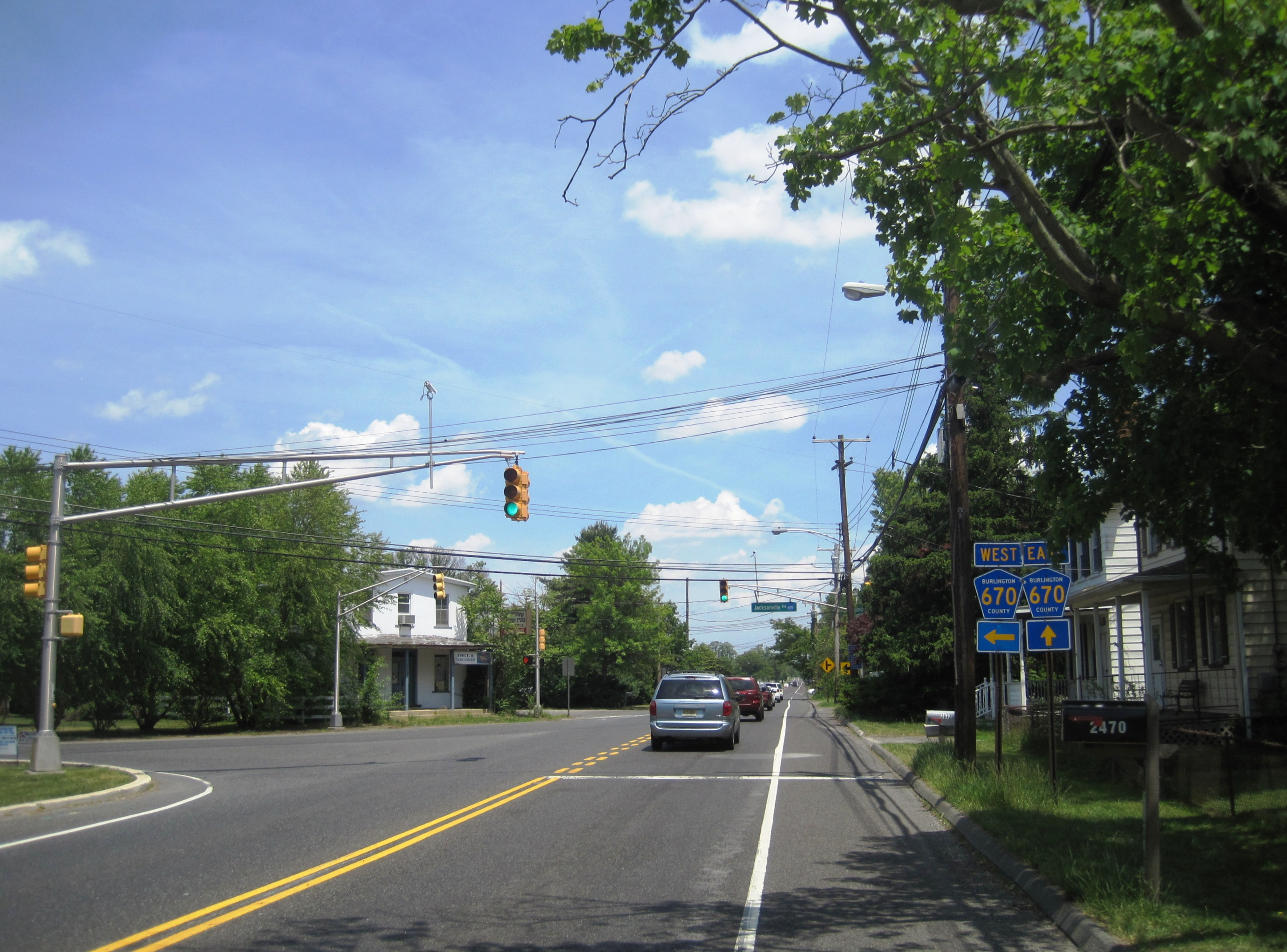 Photo of Jobstown, New Jersey, an unincorporated community within Springfield Township. Photo taken on eastbound County Route 537 at Jacksonville-Jobstown Road (CR 670).